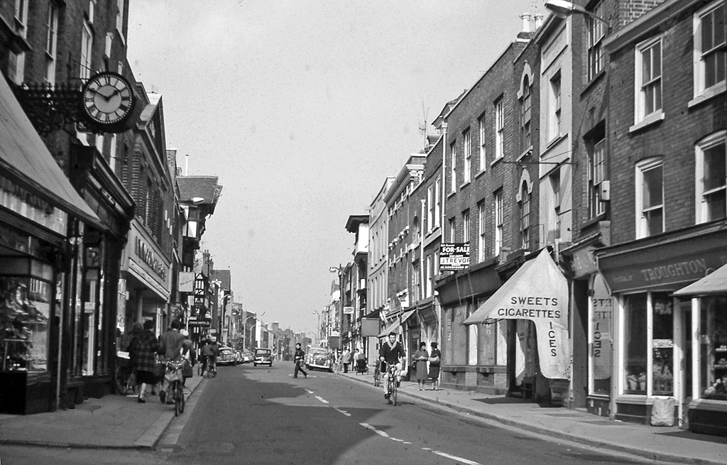 Tewkesbury High Street. View northward near the Cross, taken from the car on the A38. Well shown are some of the celebrated half-timbered buildings, notably the Swan Hotel on the left. Note the light traffic - even before the M5 was built.